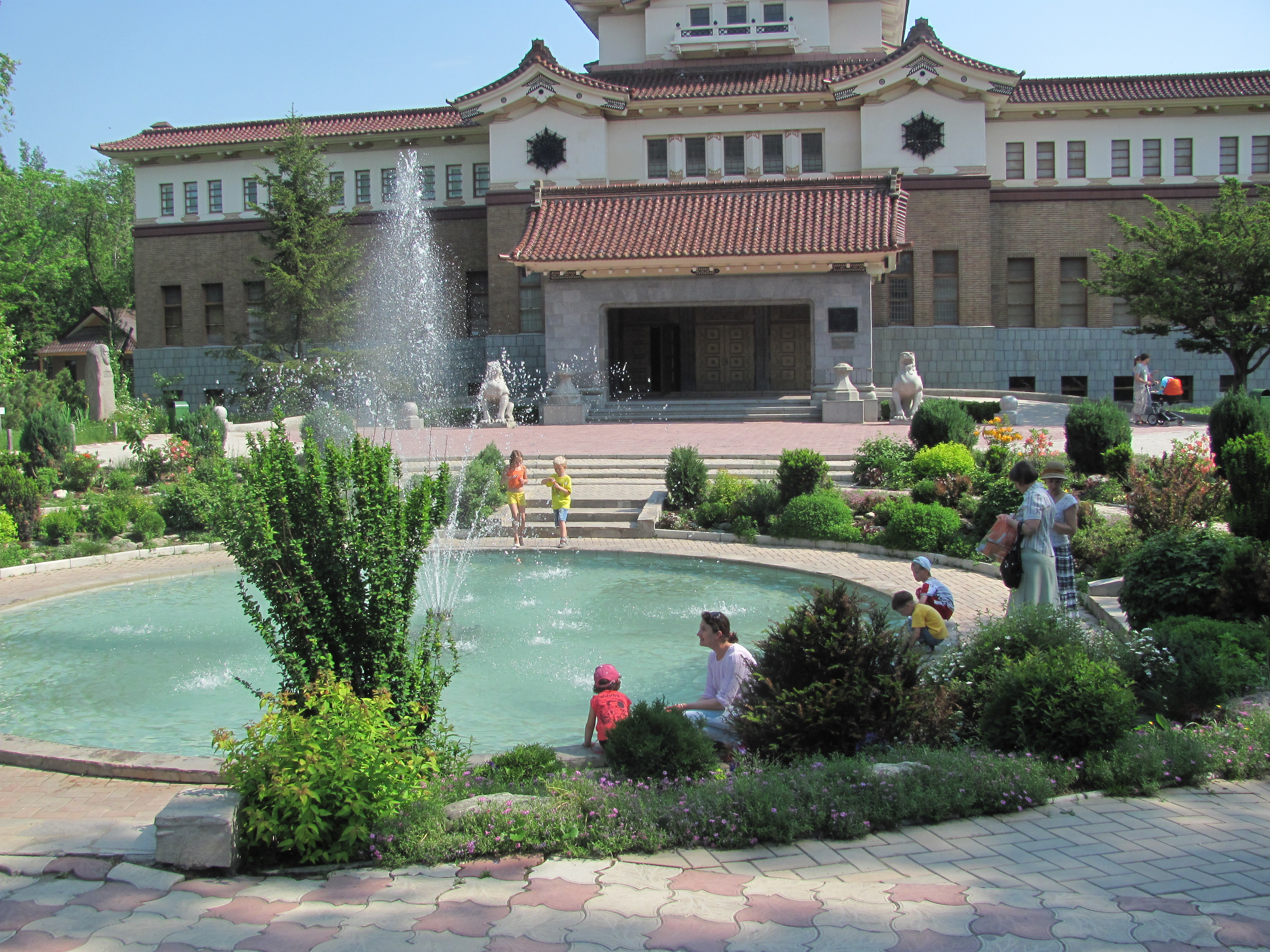 The main local history museum of Sakhalin oblast in the city of Yuzhno-Sakhalinsk, Sakhalin Island, Russia. Originally built during the Japanese Karafuto period as a museum it still serves this purpose today, detailing the natural and cultural history of the island.